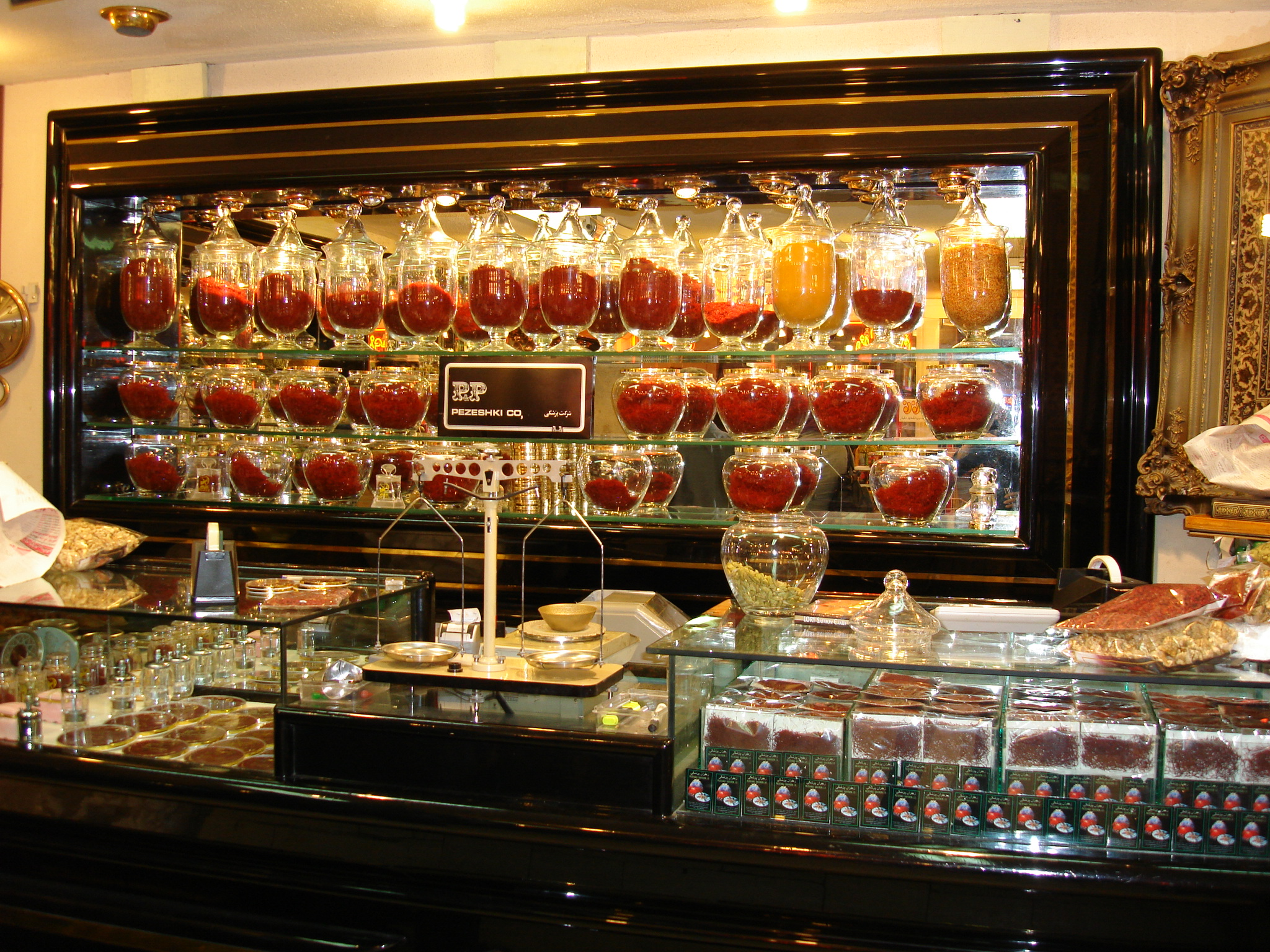 Saffron on sale in a store, Mashad, Iran